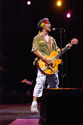 Manu Chao in Brooklyn, Prospect Park le 27 et 28 Juin 2007